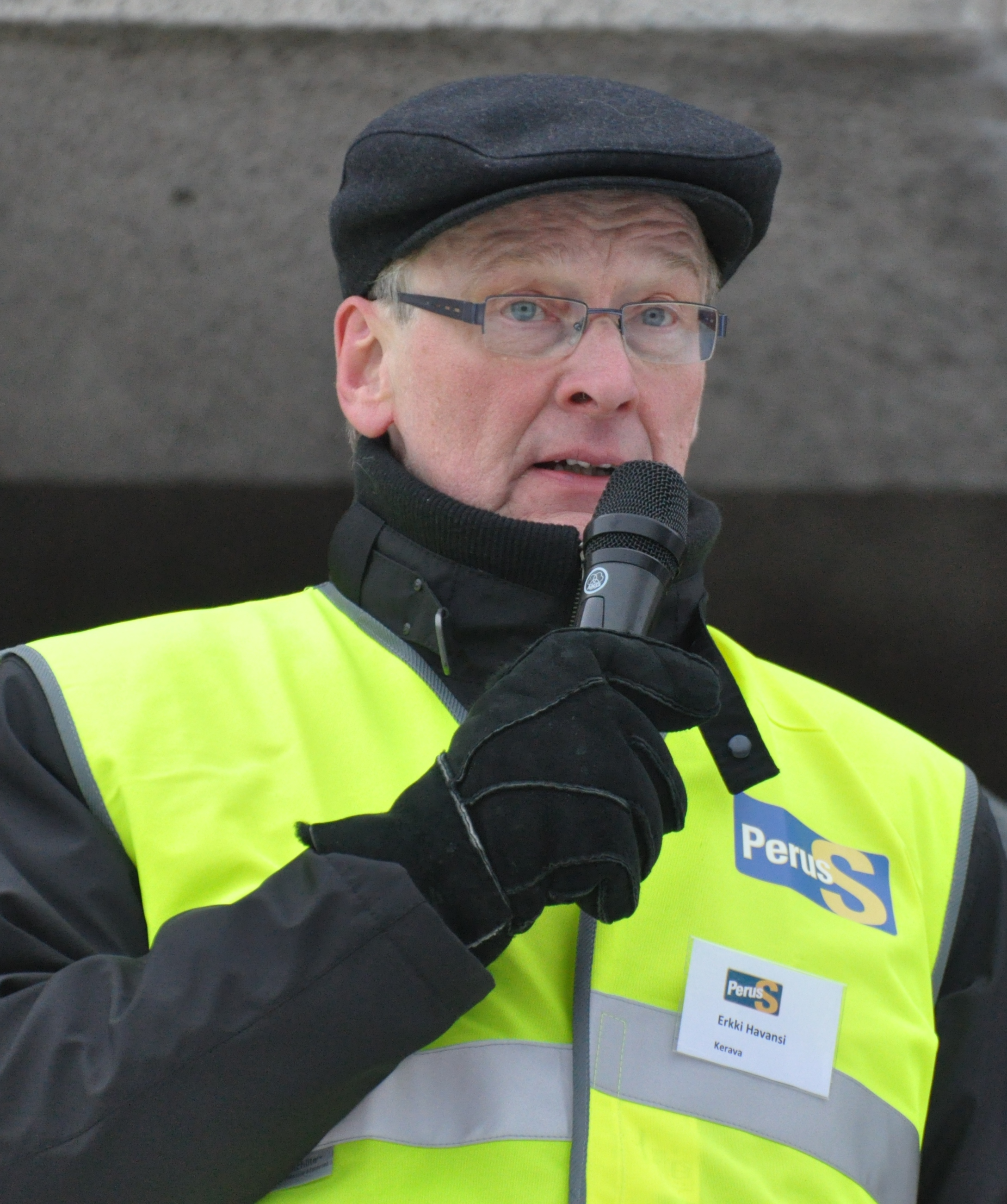 Finnish jurisprudent Erkki Havansi in Helsinki, 2011.